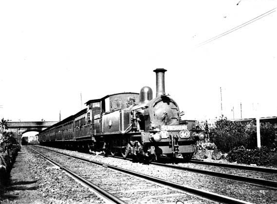 Steam hauled suburban train, departing North Melbourne station for Sunshine. Loco M class M40.